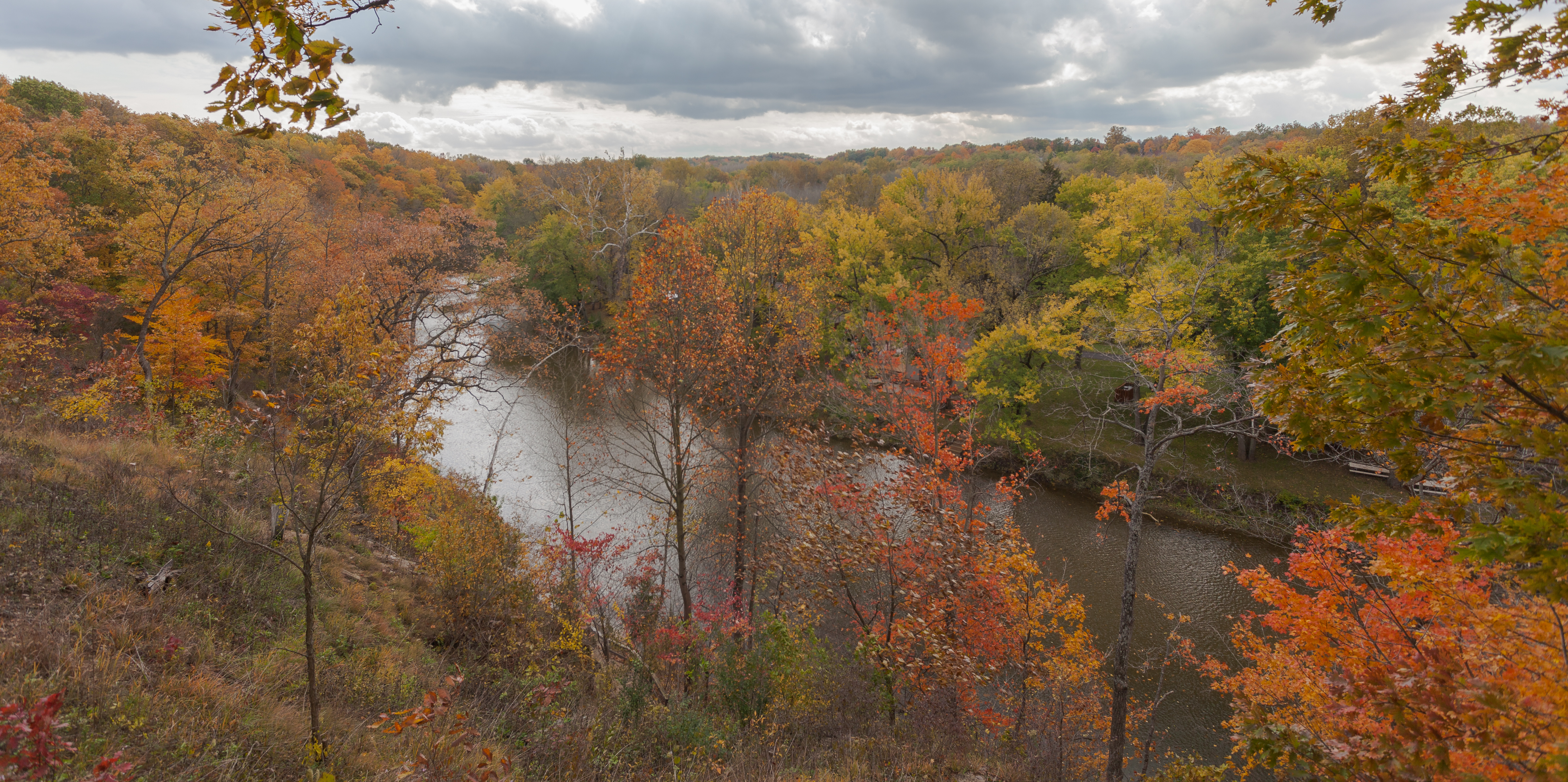 Jerry E. Clegg Botanical Garden, Lafayette, Indiana, USA